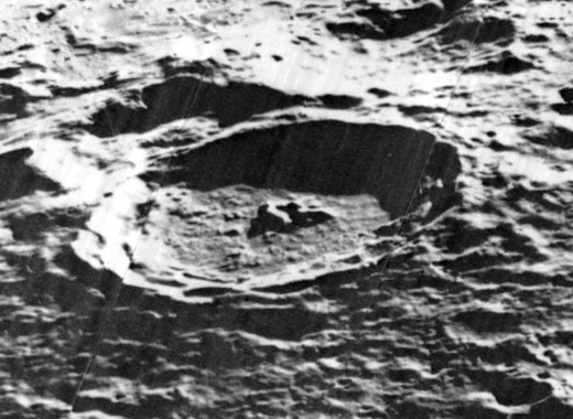 Oblique view of Lyman, on the far side of the moon, facing west.